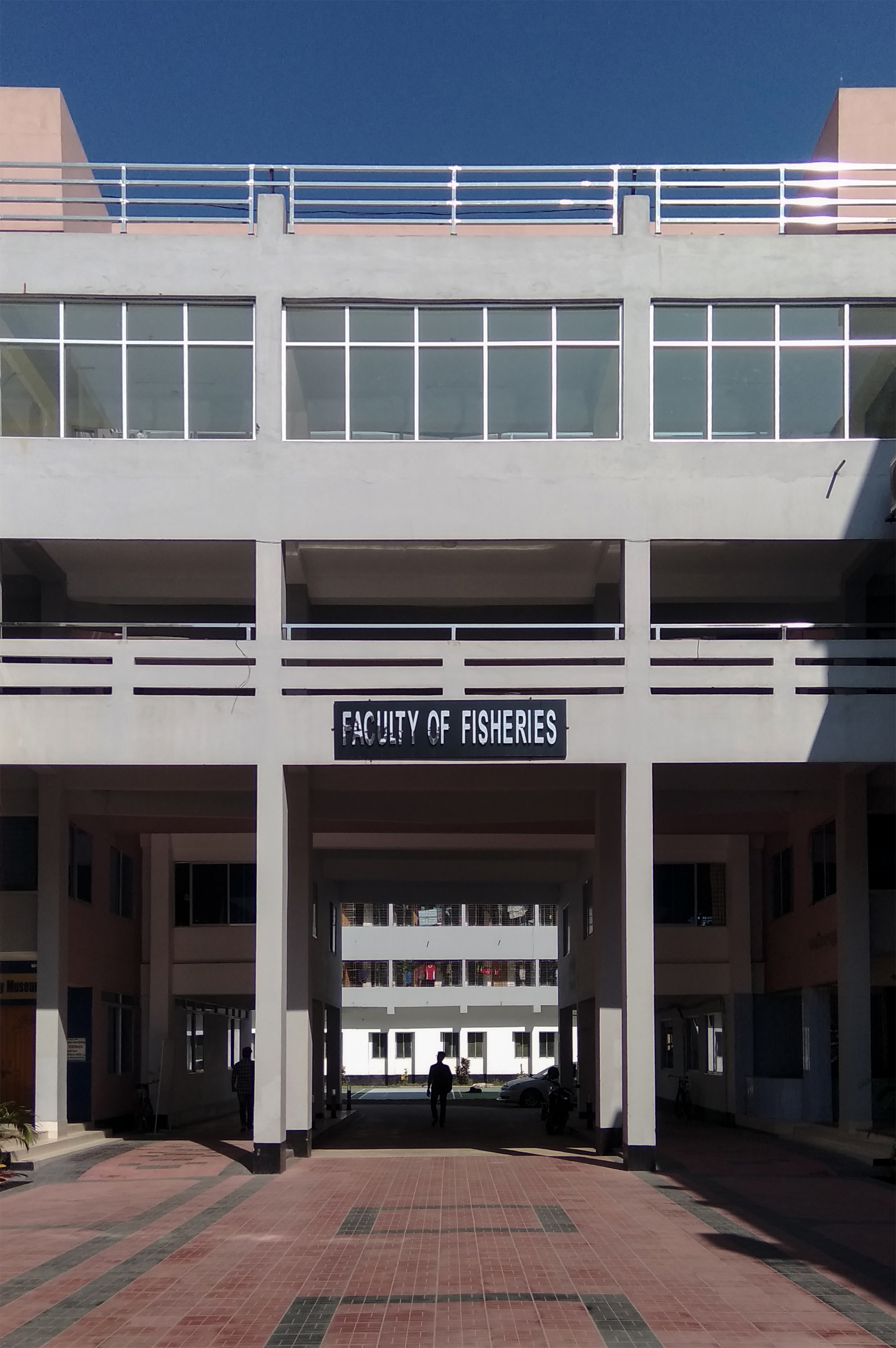 This is an image of Department of Fisheries, CVASU.